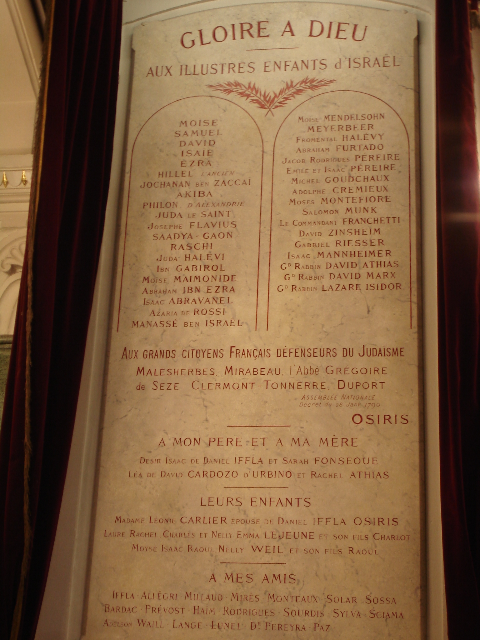 Synagogue Buffault (Paris)Commemorative plates for the famous Jews and the friends of the Jews.